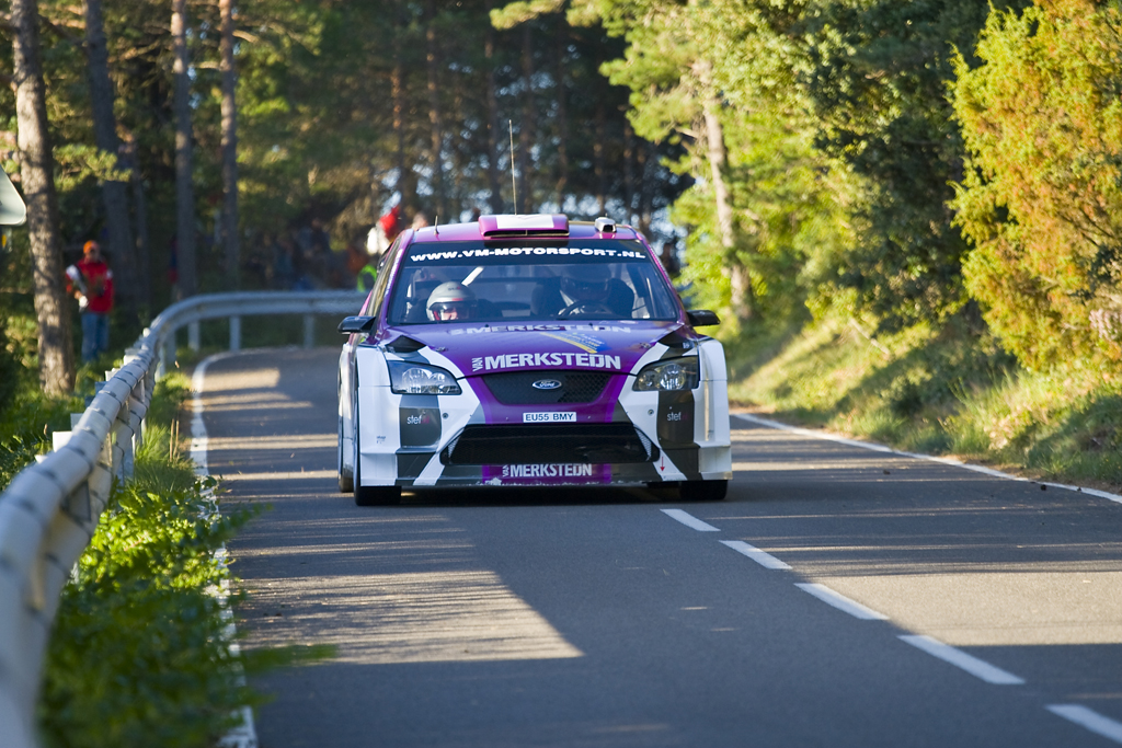 Peter van Merksteijn jr. driving his Ford Focus RS WRC 06 at the 2008 Rally Catalunya.